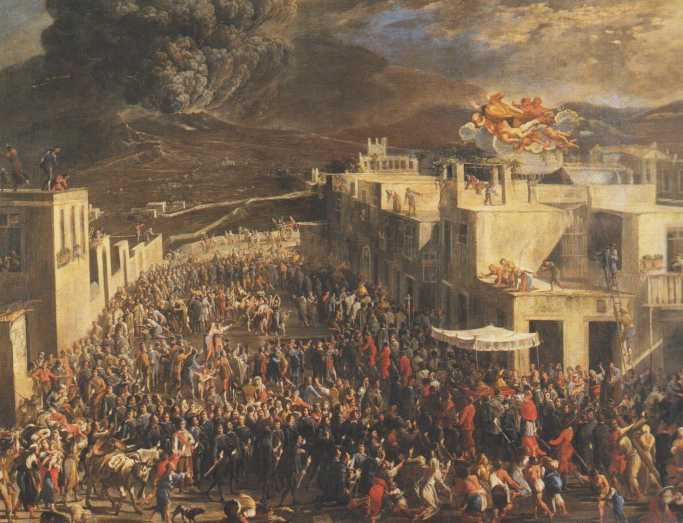 Vesuvio eruption 1631. San Gennaro procession